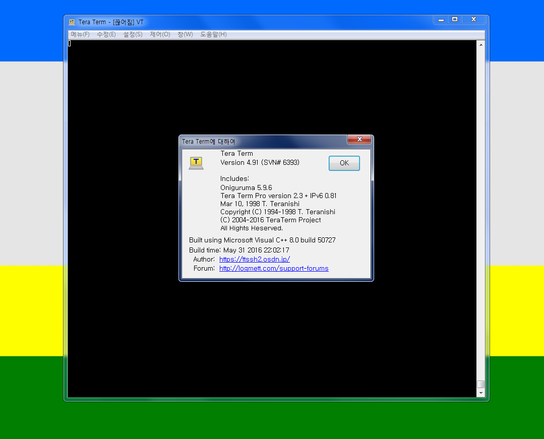 tera term screenshot